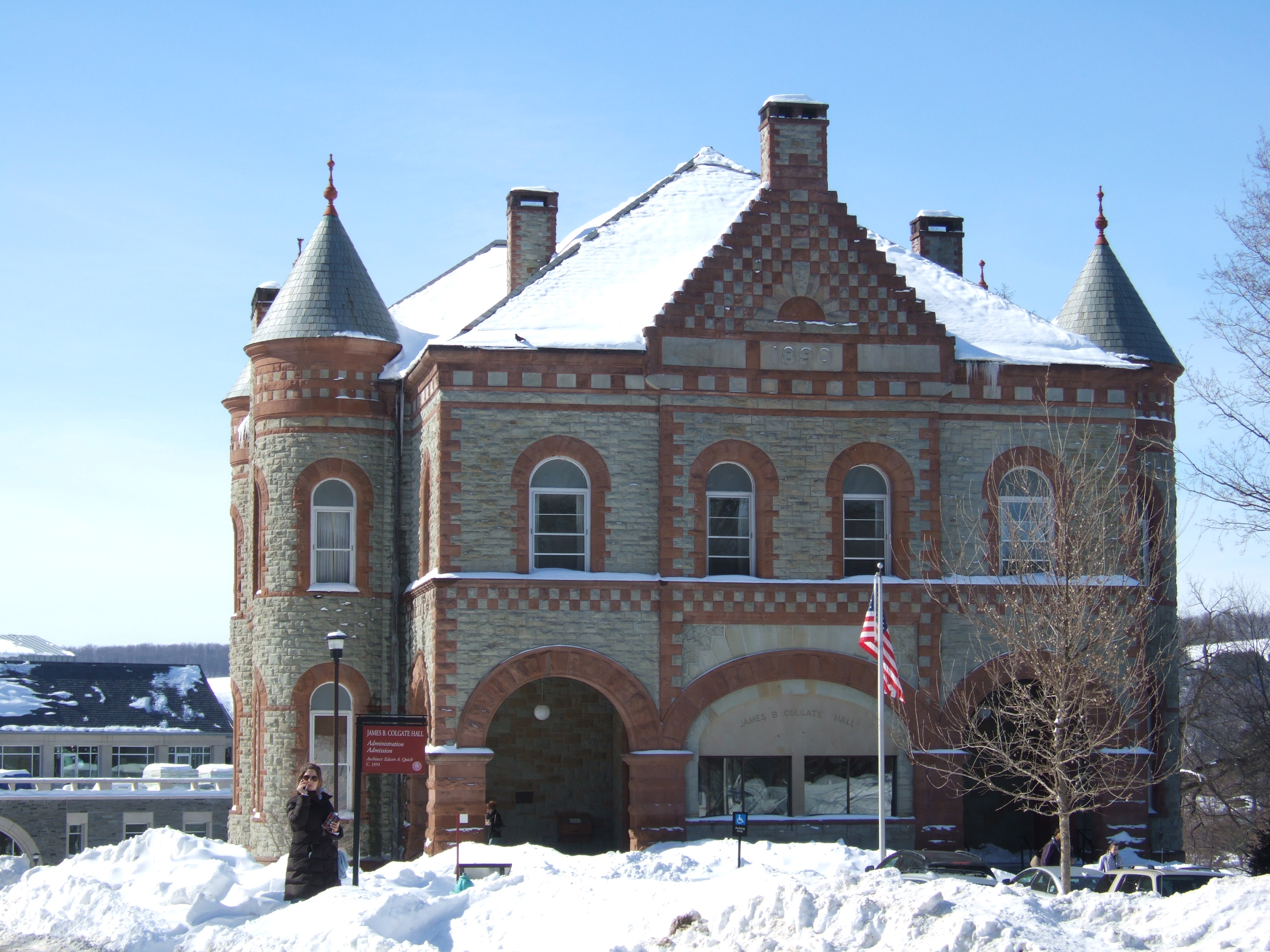 Hamilton, New York (Colgate University)